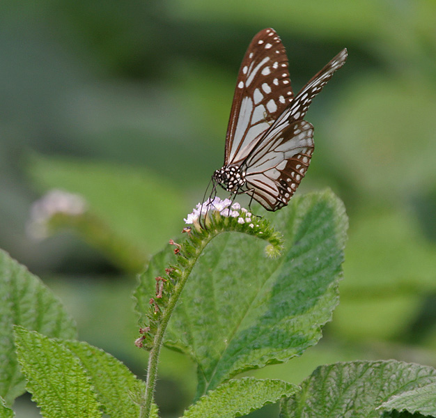 Glassy Tiger Parantica aglea at Jayanti in Buxa Tiger Reserve in Jalpaiguri district of West Bengal, India.